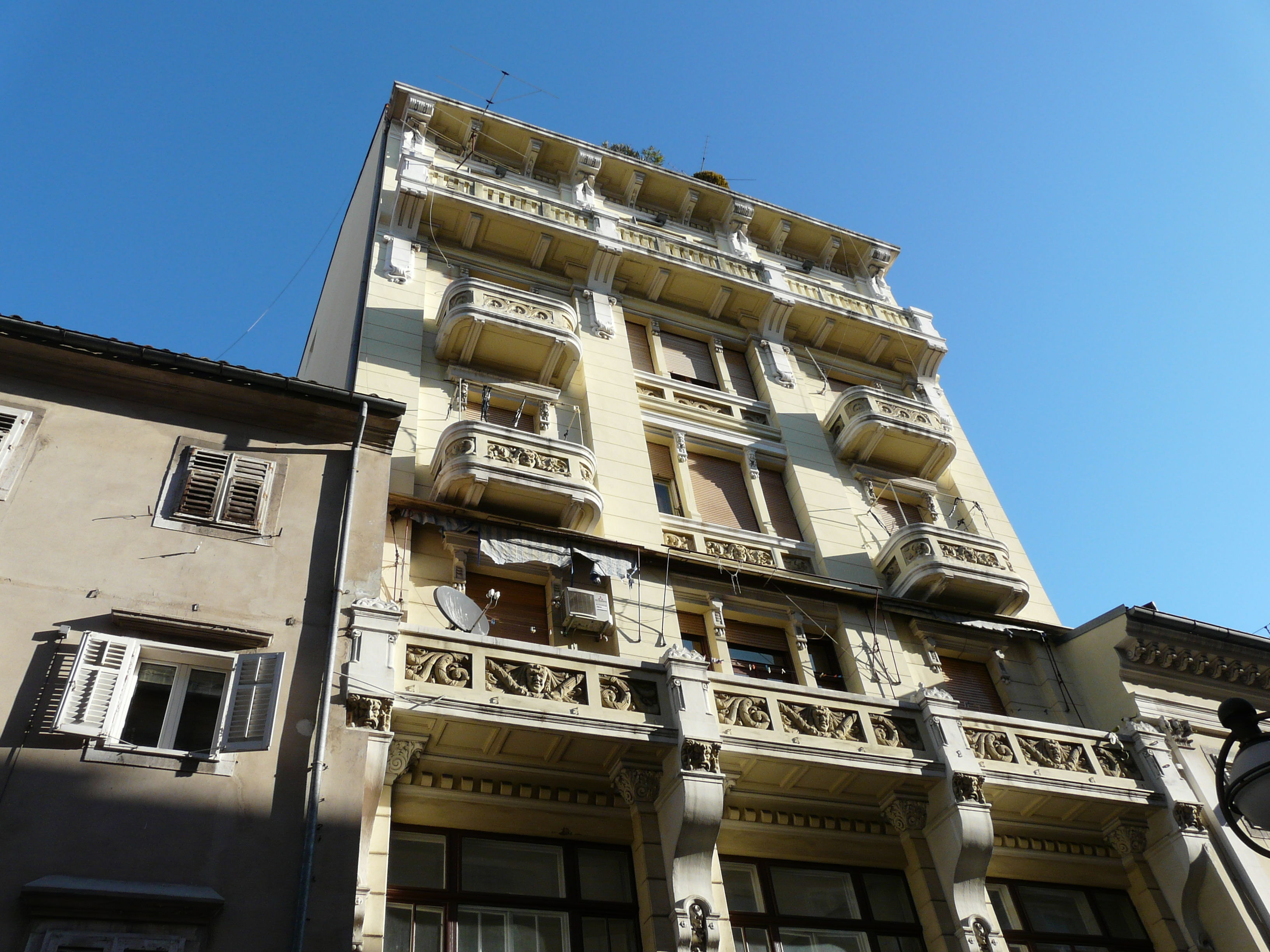 Upper part of Mattiassi House on Korzo str 38, in RIjeka, Croatia.